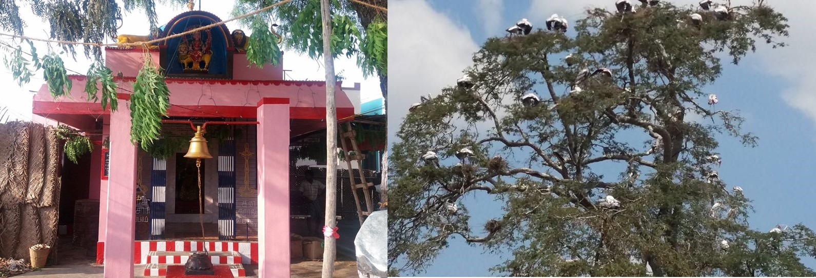 Sankarapandiapuram